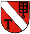 Coat of arms of Triengen, Lucerne, Switzerland